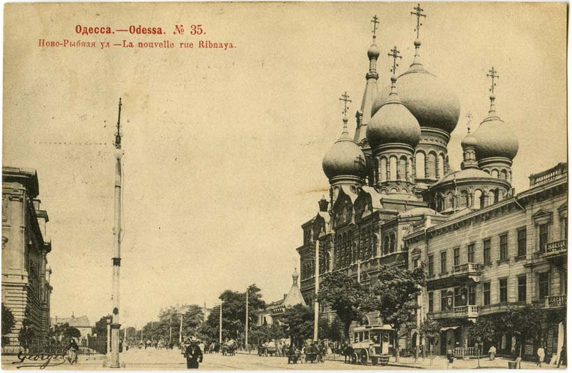 The New Ribnaya Street. Odessa